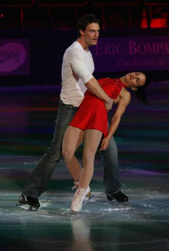 Meagan Duhamel and Craig Buntin at the TEB 2008